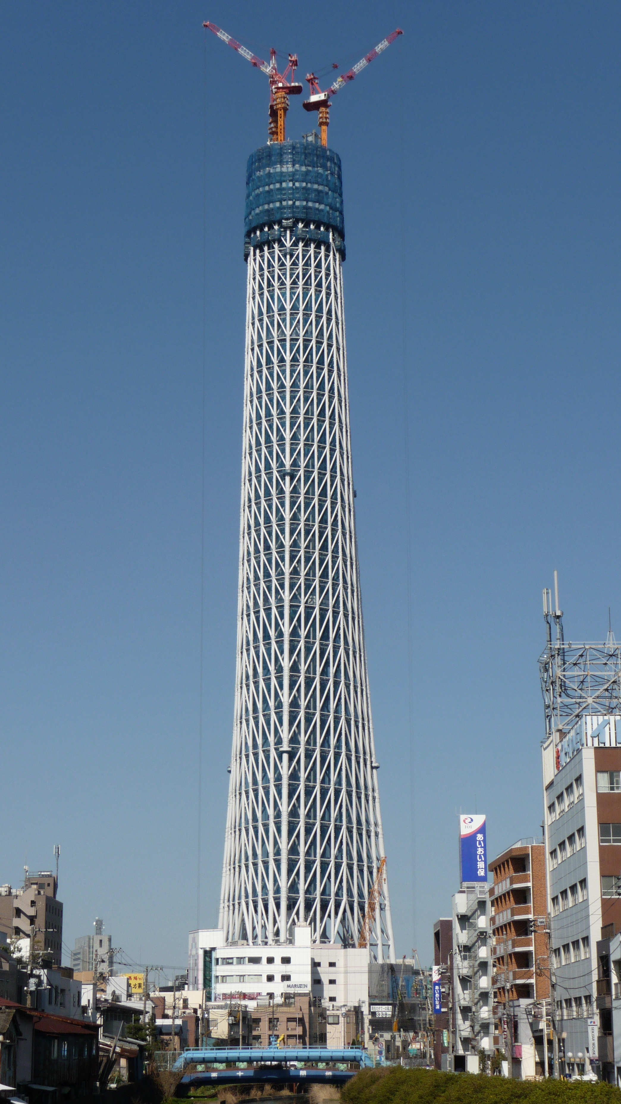 Tokyo Sky tree Construction in progrees ( 30 March 2010, 338 meter at tip, of 10 meter height of elevator shaft unit on 328 meter.)